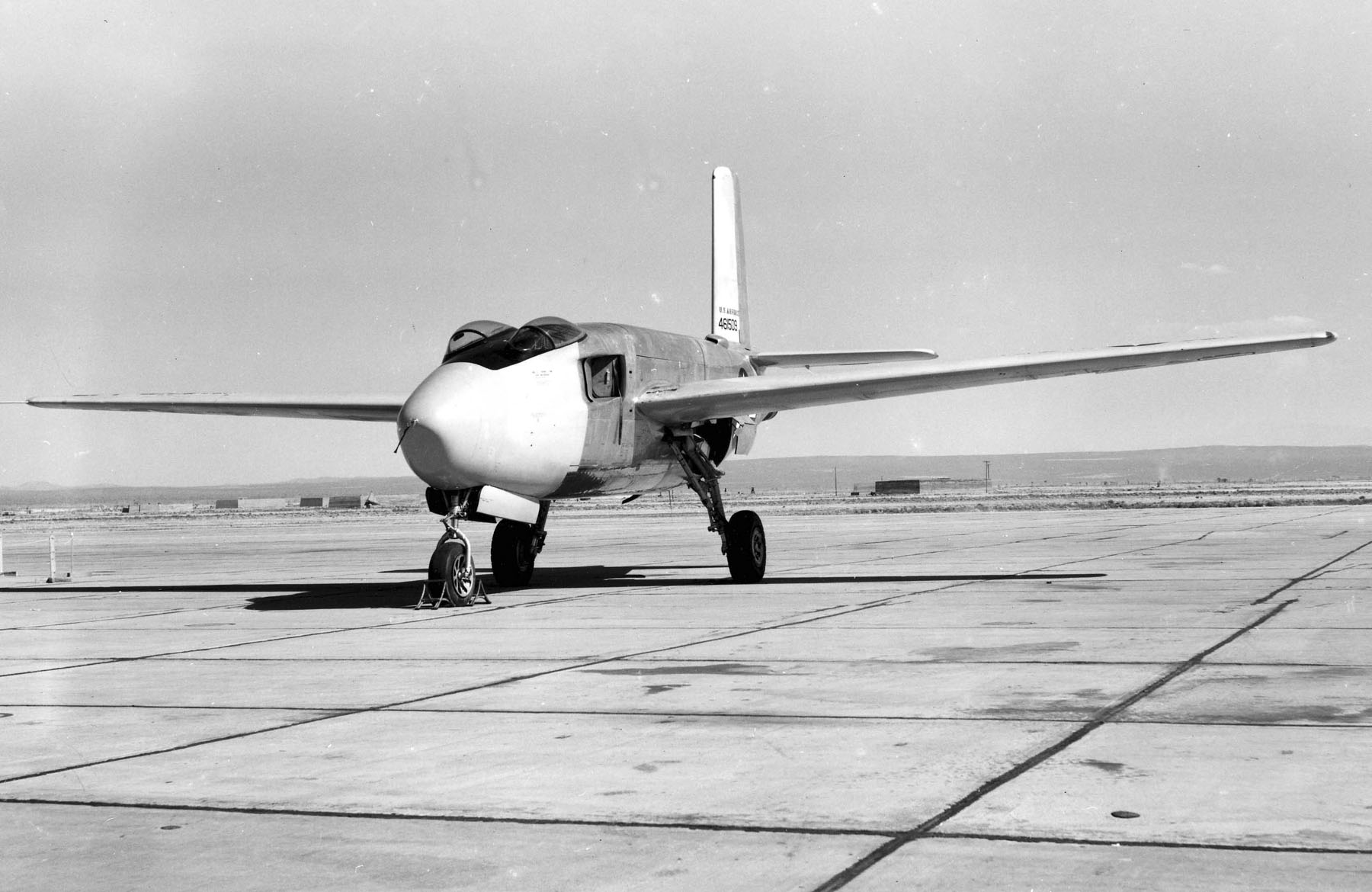 Douglas YB-43 SN 44-61509